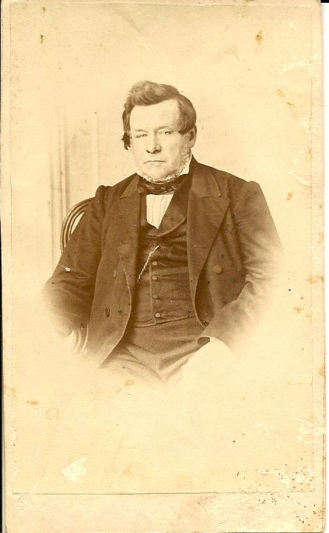 Swedish politician from late nineteenth century